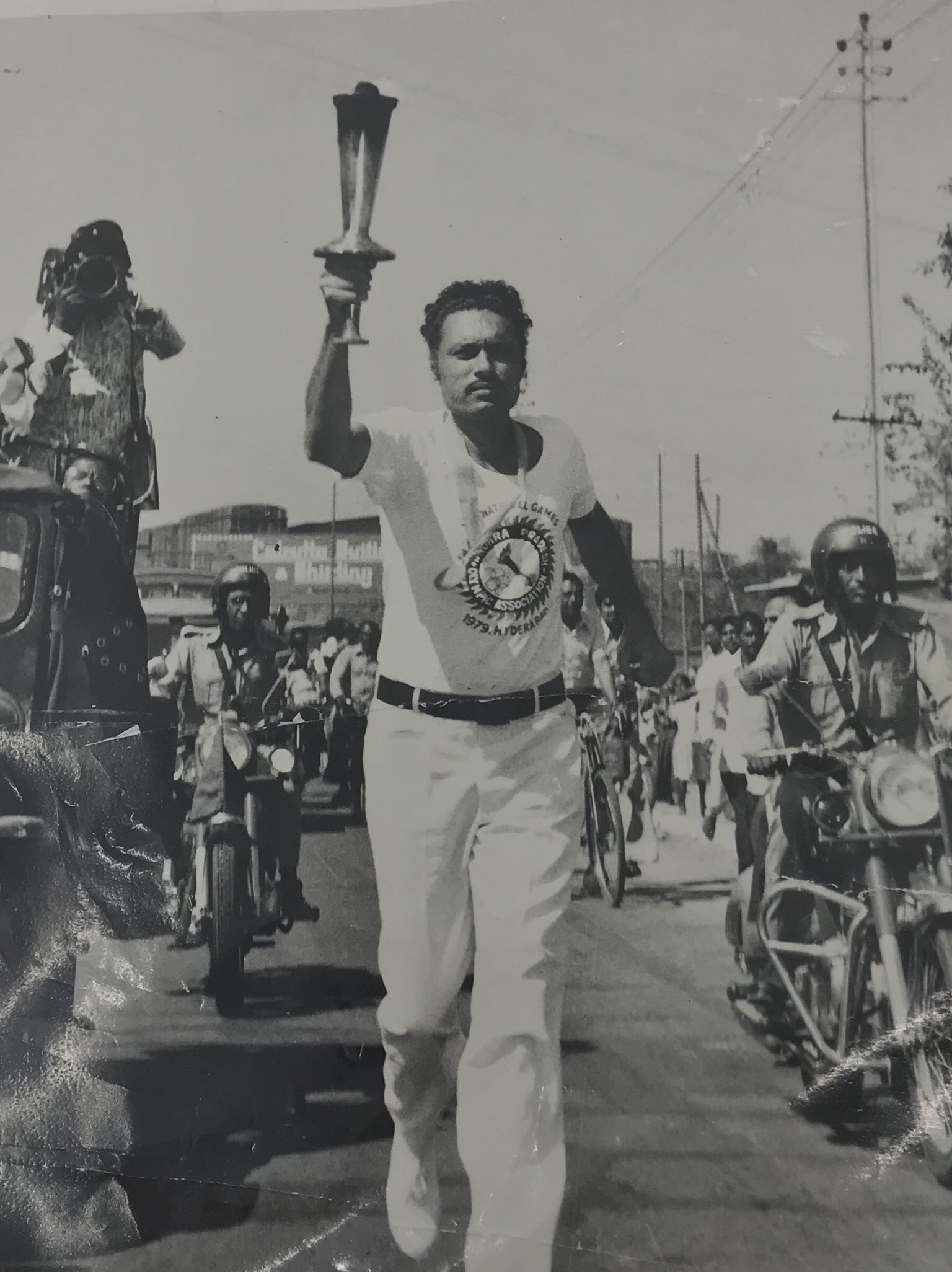 Riaz Ahmed (Seen Shaking Hands) with a Official